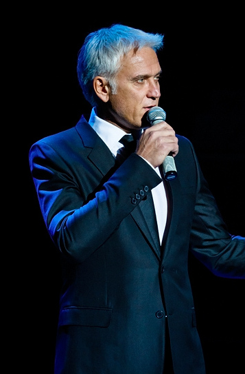 Александр Маршал на торжественном вечере, посвященном 65-й годовщине со дня образования подразделений специального назначения Вооруженных Сил Российской Федерации.